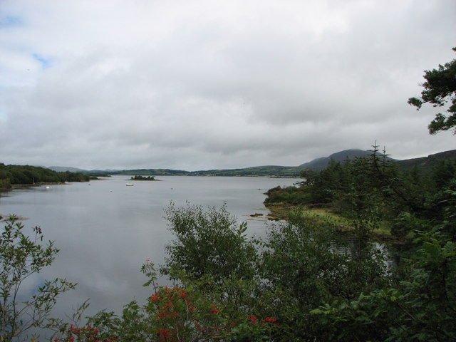 Mulroy Bay at Woodquarter Forest Looking north along edge of Mulroy Bay from a viewing point in Woodquarter Forest. Photographer is just inside C1830 but image is half and half between c1830 and c1930.